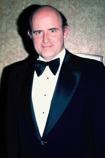 Peter Boyle at a party after the premiere for Fist in 1978.